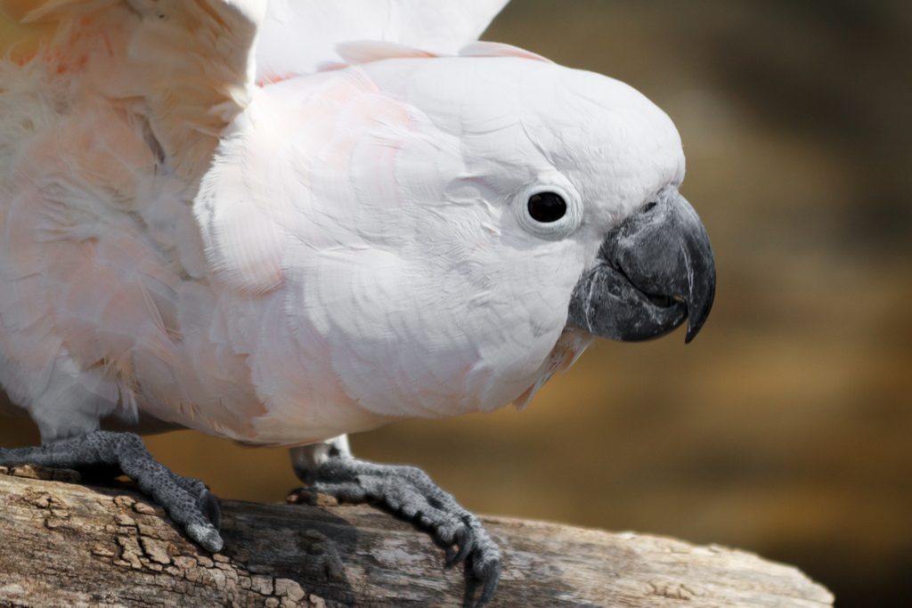 A Salmon-crested Cockatoo (also known as Moluccan Cockatoo) at Cincinnati Zoo, Ohio, USA.